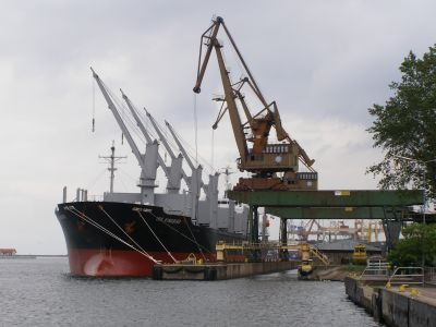 "IVS Kingbird" ship being unloaded in the Świnoujście Harbour, Poland IMO Number: 9336787 MMSI Number: 372883000 Callsign: 3EKZ5 Length: 177 m Beam: 28 m